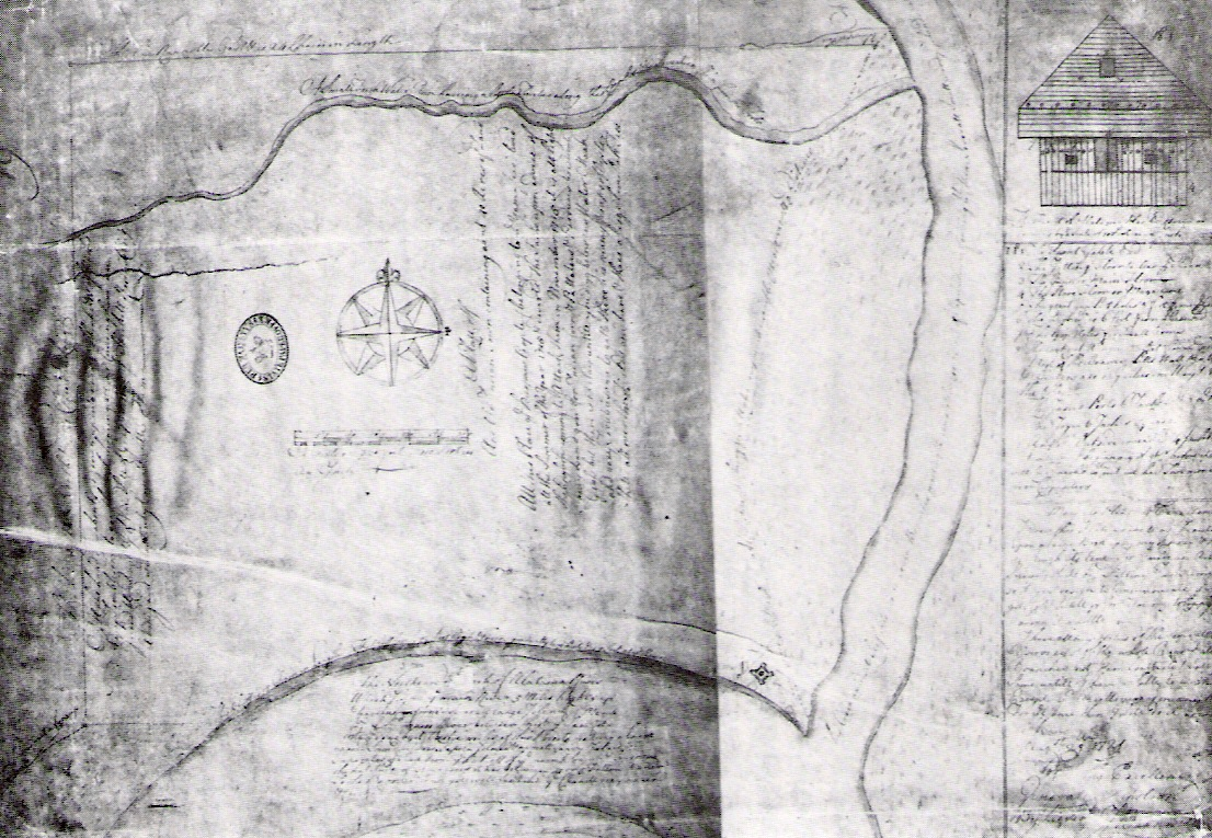 The Northern Branch of Altamaha River which joyns ye main River 5 miles higher up...